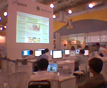 This is a photograph of the WikiPilipinas booth taken at the 28th Manila International Book Fair on September 1, 2007. The book fair was held at the World Trade Center in Pasay City in the Philippines.